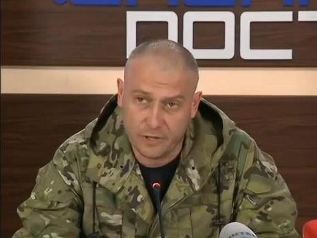 Dmytro Yarosh, Ukrainian politician. A shot from press-conference in Dnepropetrovsk (video in Youtube)